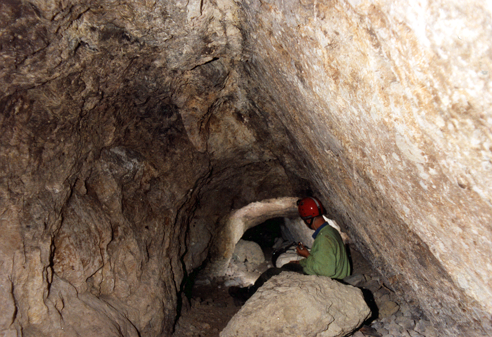 Inside of Sas-kövi Cave.